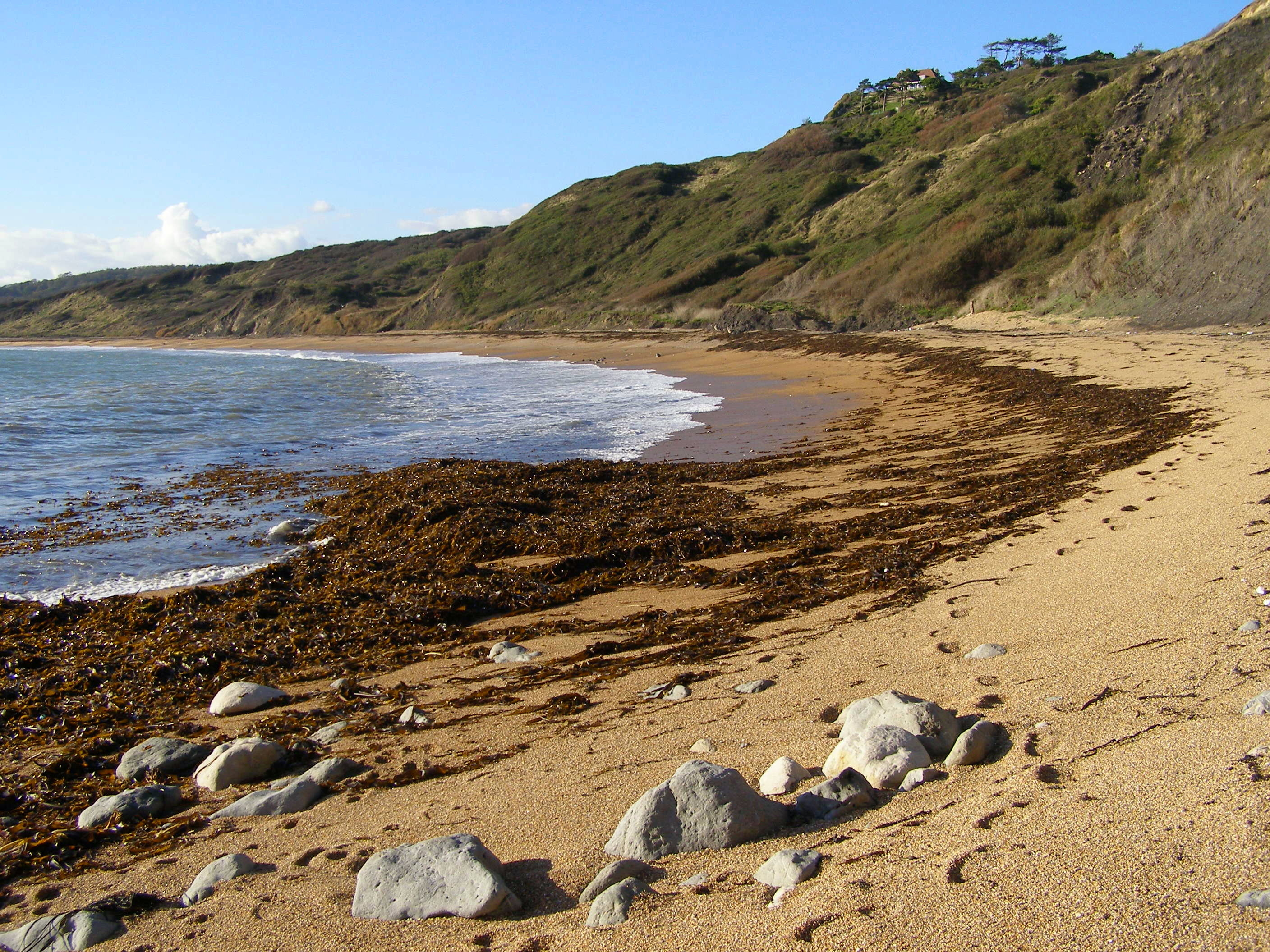 Eastern end of Ringstead Bay beach, below Burning Cliff, Dorset, U.K.